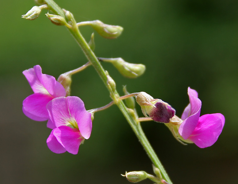 Unhali, Sarphonk or Wild Indigo Tephrosia purpurea in Hyderabad , India.